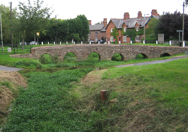 The Seven Arch Bridge, Rearsby, Leicestershire. Only six arches are visible today. The original wooden packhorse bridge was replaced in 1714 by this stone one. It is said to have taken six men nine days to complete it at a total cost of £11 2s 2d. The brook it crosses is choked with watercress in this photograph. The white-painted concrete posts mark the line of Brook Side.